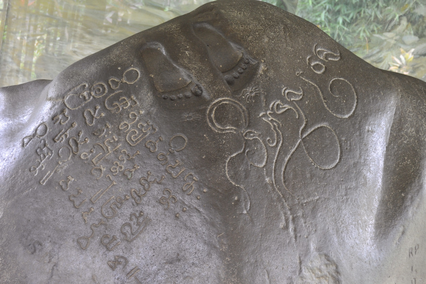 The original Ciaruteun inscription at Pasir Muara; now Ciaruteun Hilir village in the District of Cibungbulang, Bogor, West Java, Indonesia.